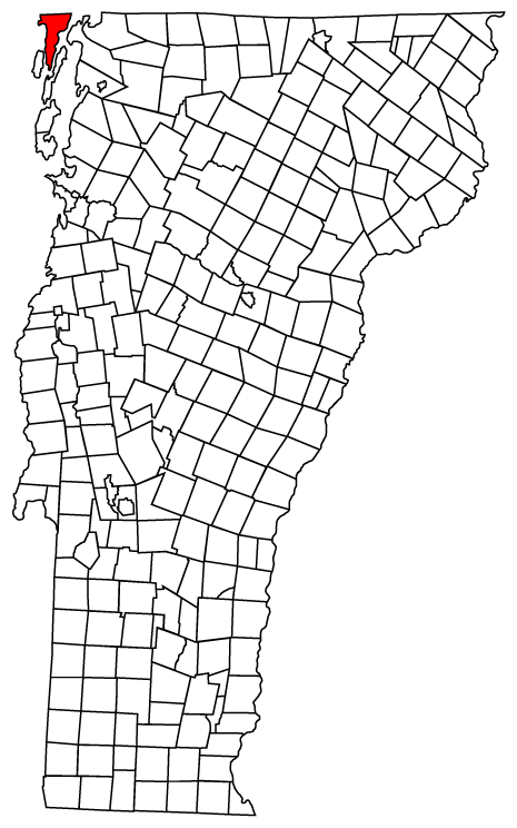 Description: Map of Vermont towns with Alburg highlighted Source: Map created by Jared C. Benedict on 26 March 2004. Copyright: © Jared C. Benedict.